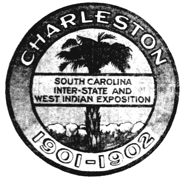 The emblem of the South Carolina Inter-State and West Indian Exposition, from the Philadelphia Record, November 27, 1901